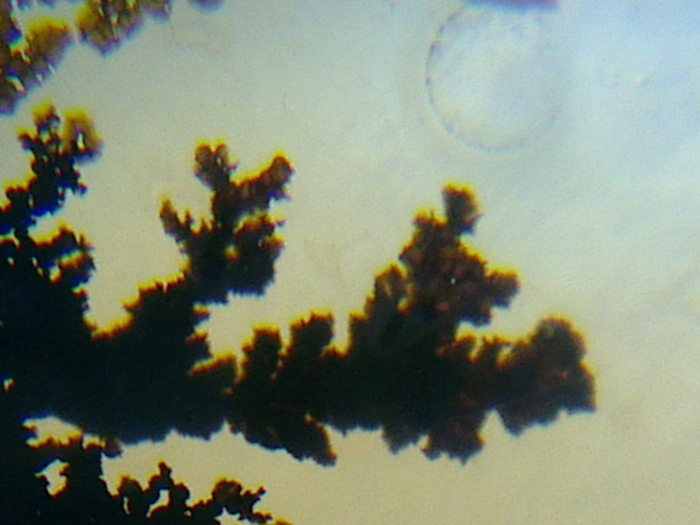 A human like dendritic agate, also called landscape agate.